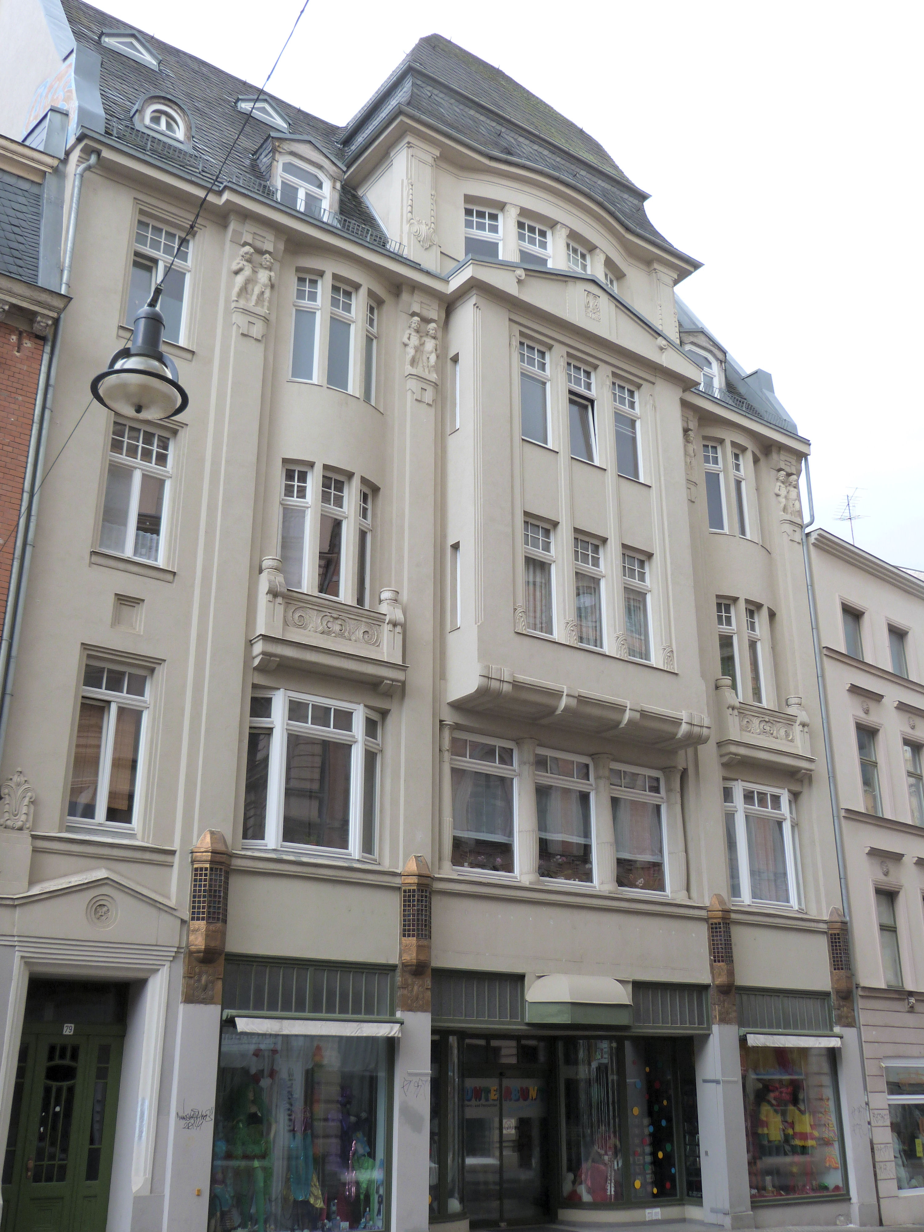 House No. 79, Leipziger Strasse in Halle (Saale)